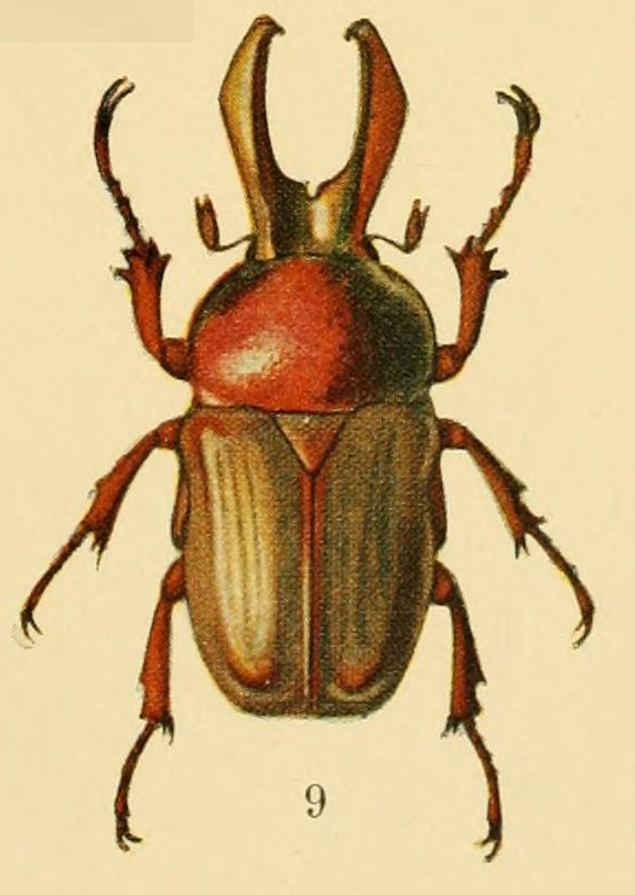 Illustration of Narycius opalus male Arrow, GJ (1910). The Fauna of British India. Coleoptera. Lamellicornia (Cetoniinae & Dynastinae). Taylor and Francis, London.